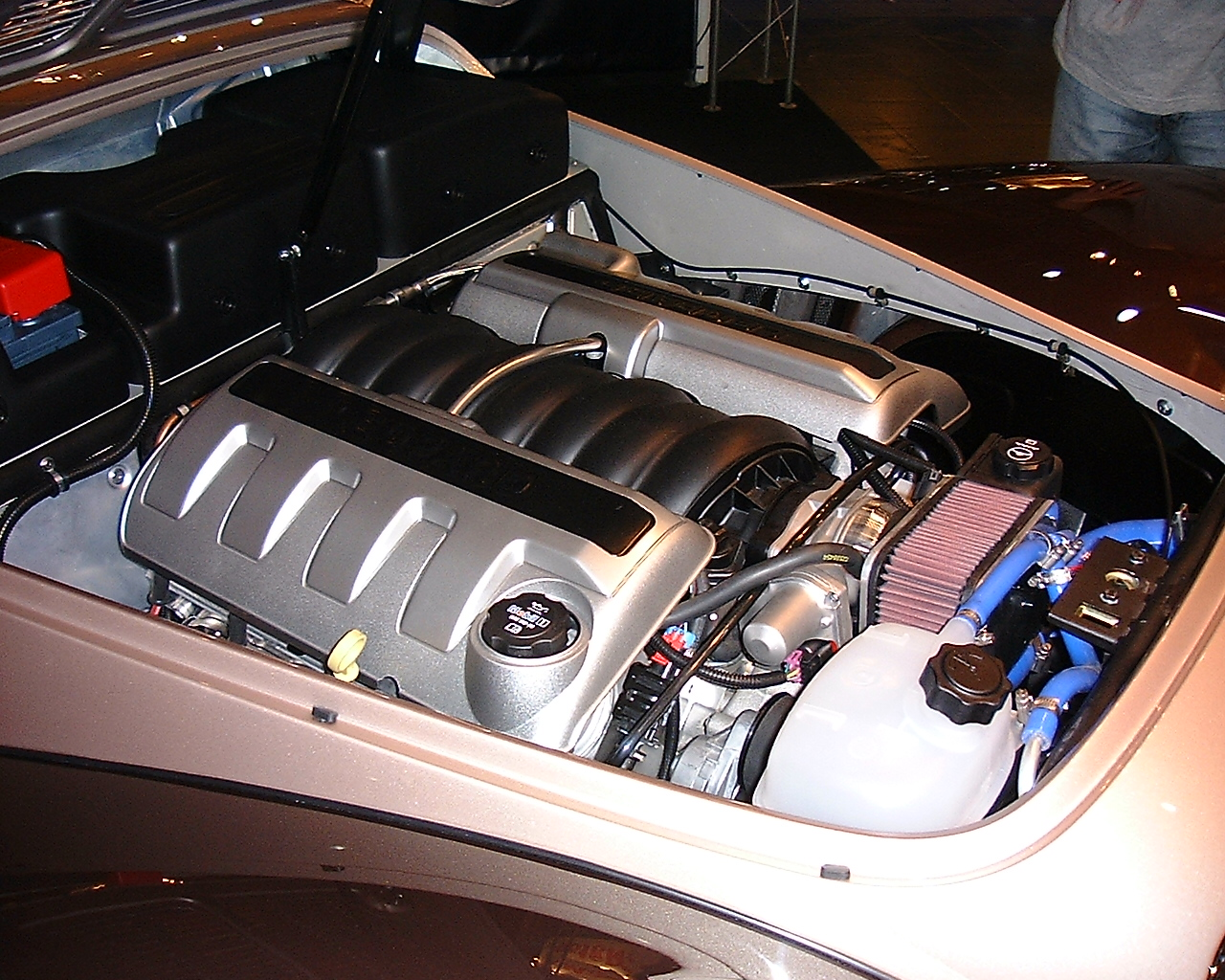 The engine of the polish roadster "Leopard" photographed at autoshow "AMI" in Leipzig.